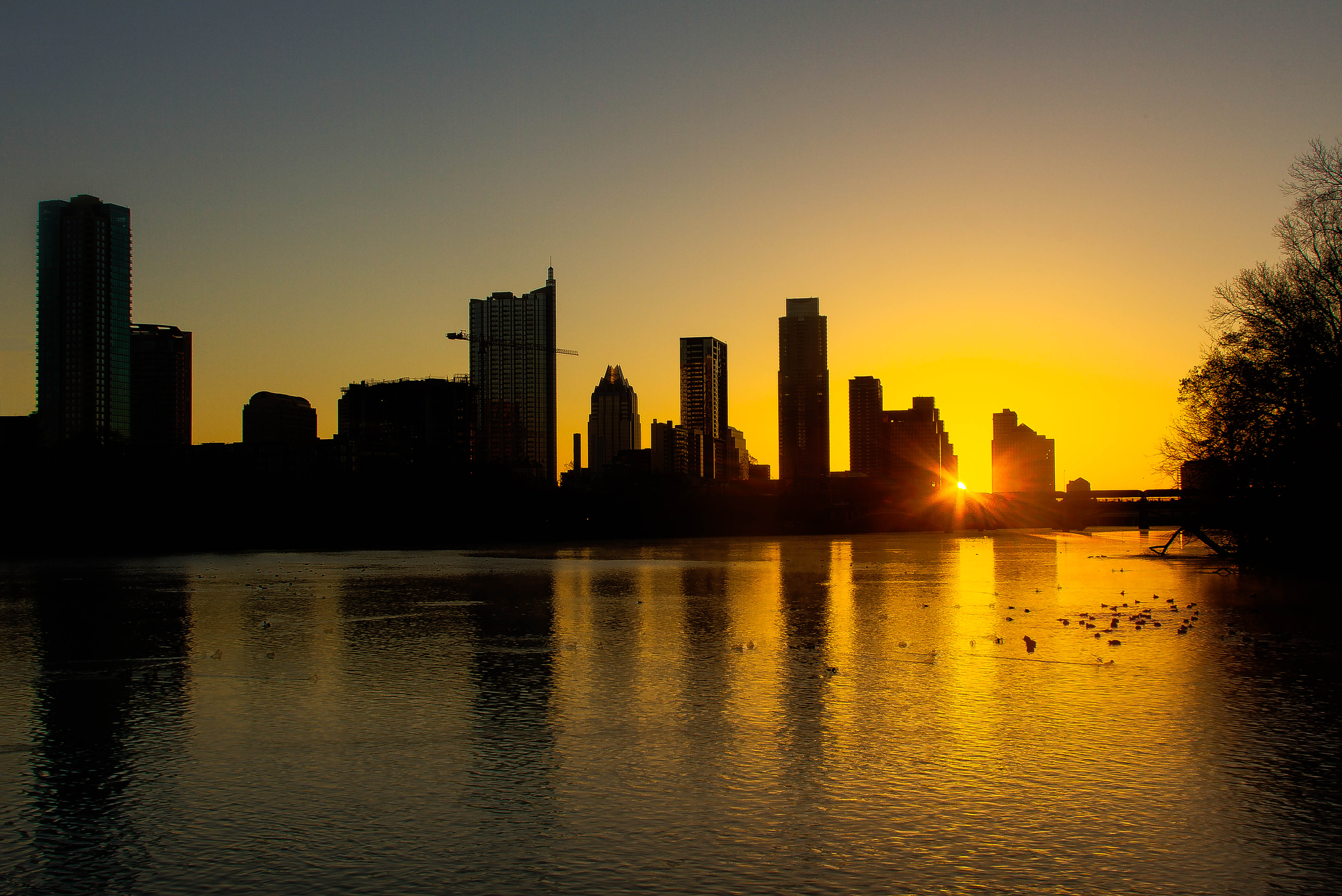 The skyline of Austin, TX viewed at sunrise from Zilker Park on February 17th, 2012